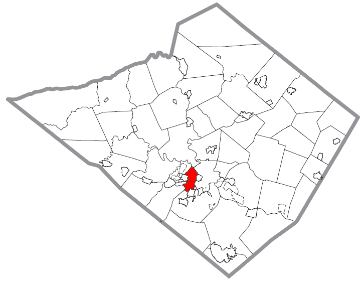 A map of Berks County showing Wyomissing, Pennsylvania highlighted on the map.